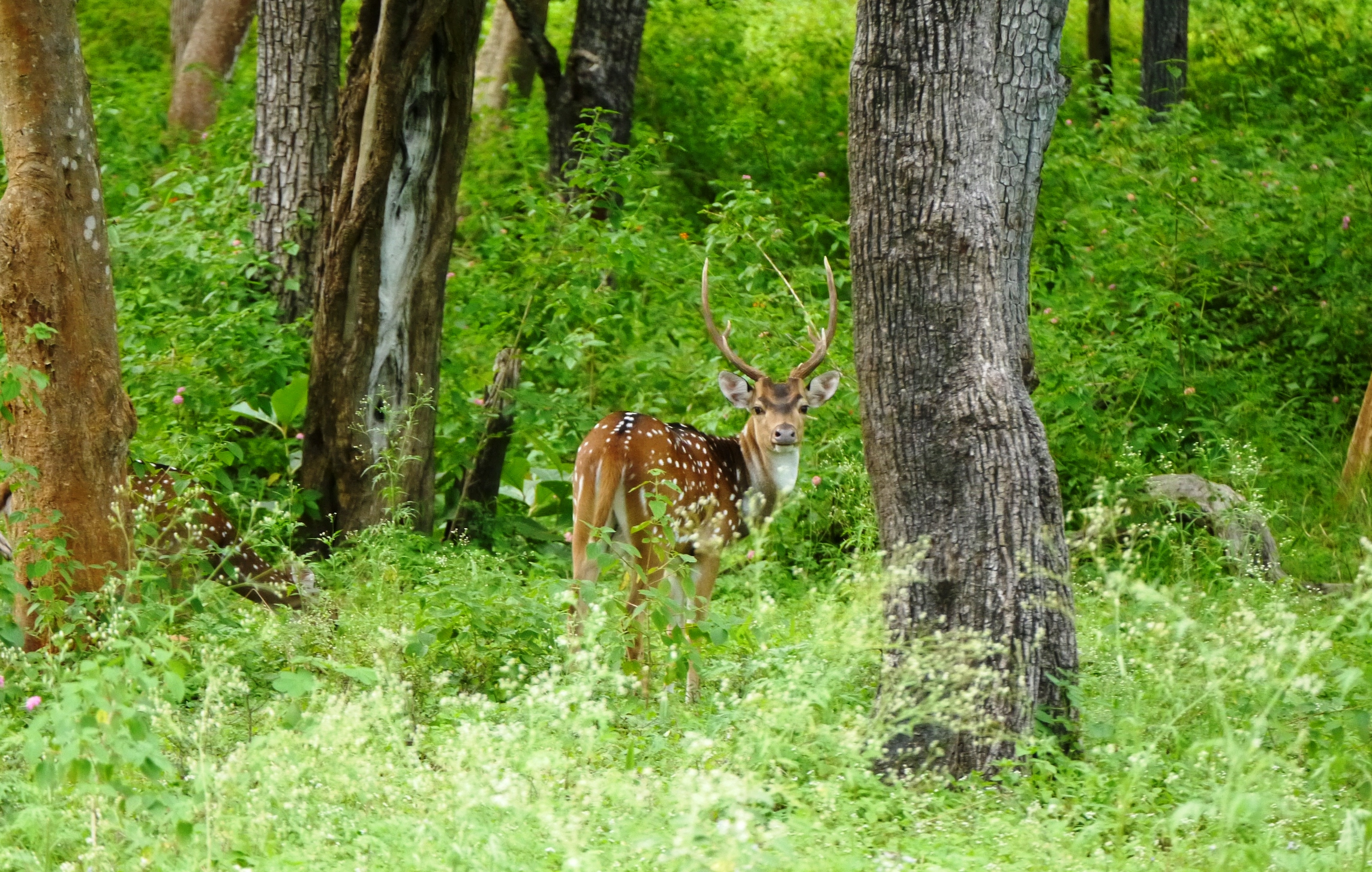 A lonely Deer having one last look before jumping into the jungle